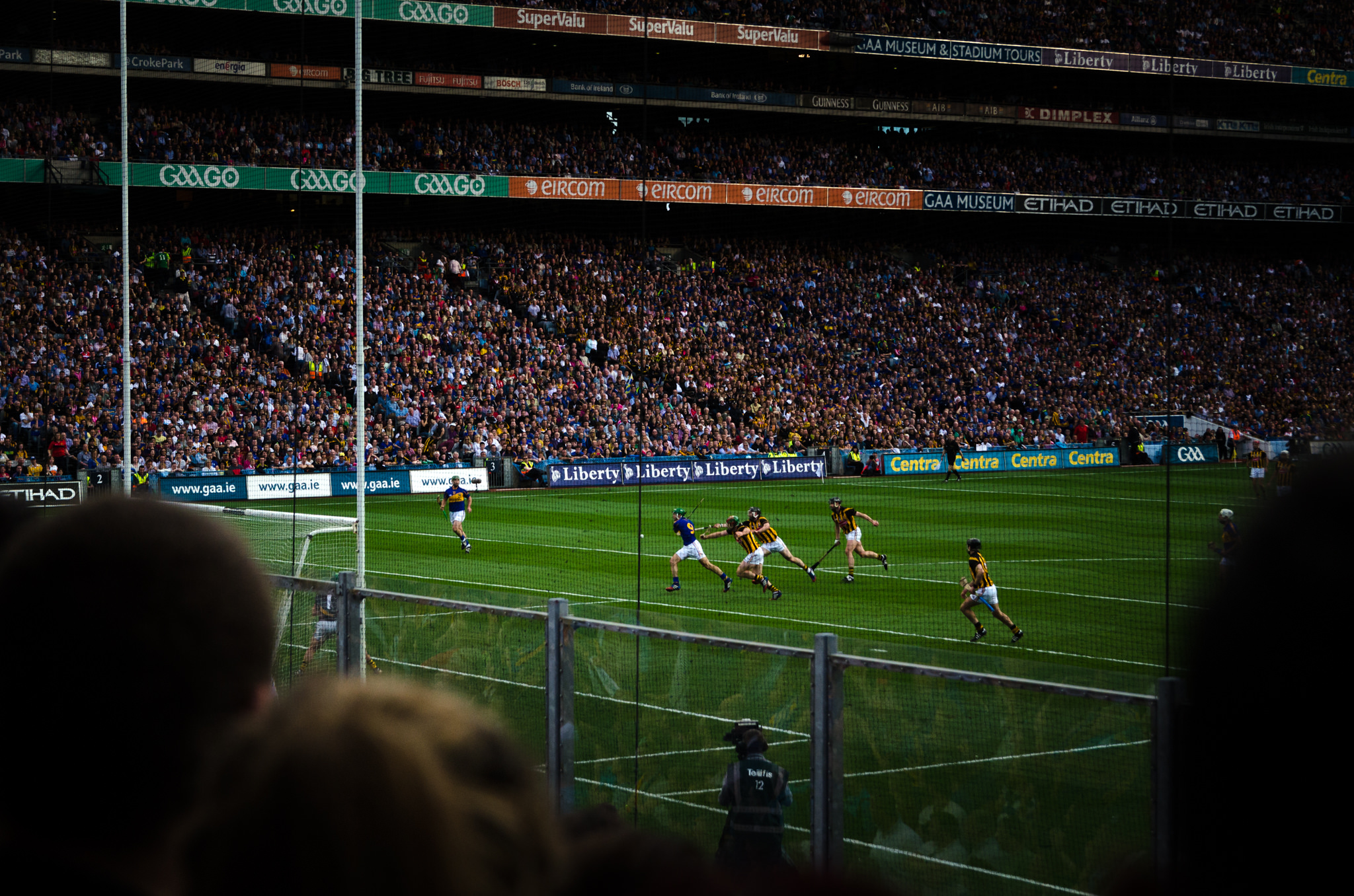 2014 All-Ireland Hurling Final, Re-play - Kilkenny v Tipperary